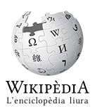 Wikipedia logo 2.0